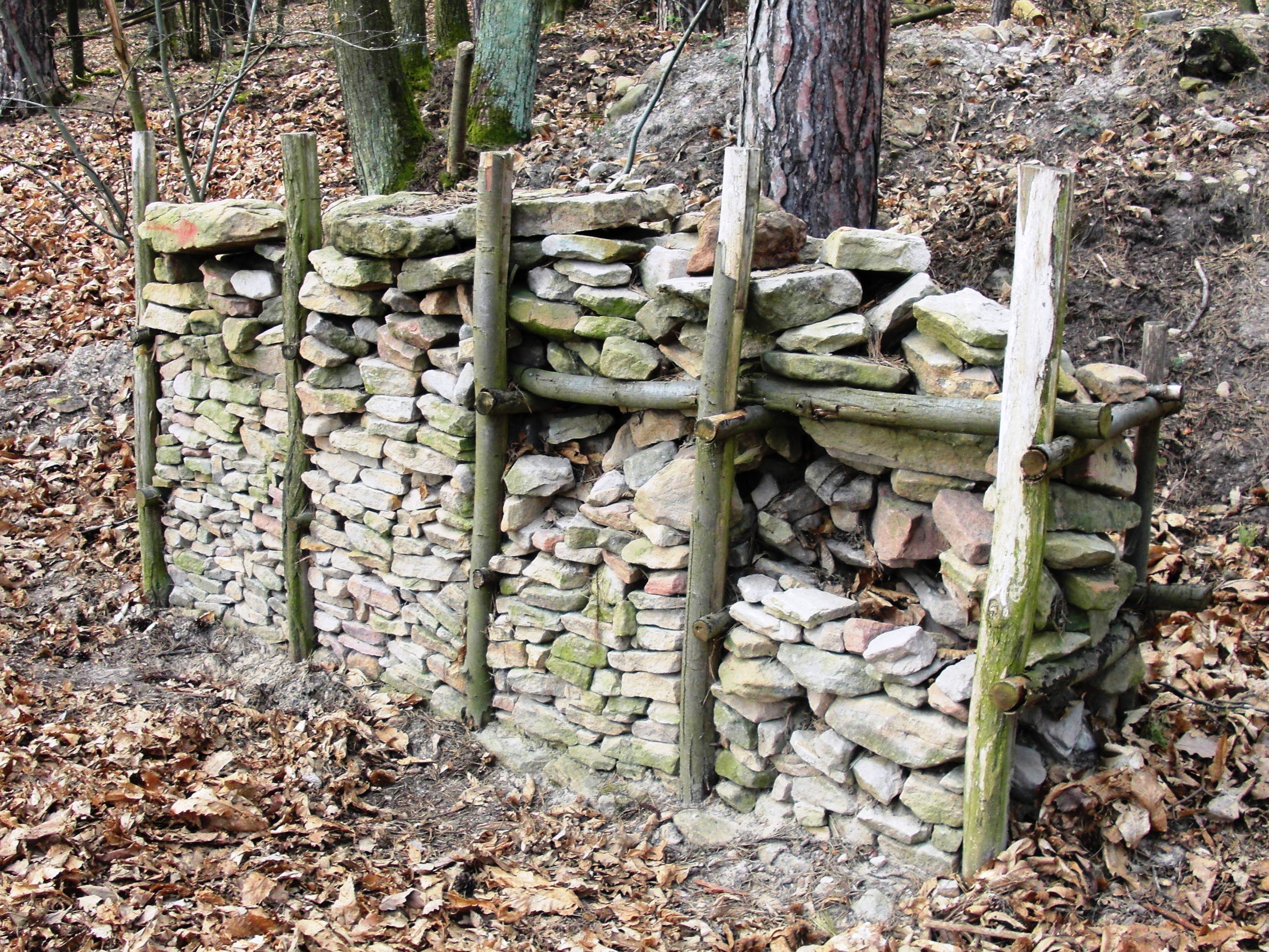 Little reconstruction of the pagan wall in Bad Dürkheim.